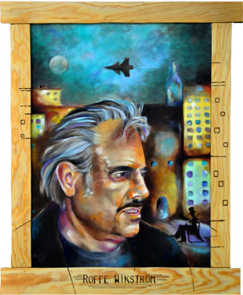 The swedish blueslegend Roffe Wikstroem painted by the swedish artist Tommy Tallstig